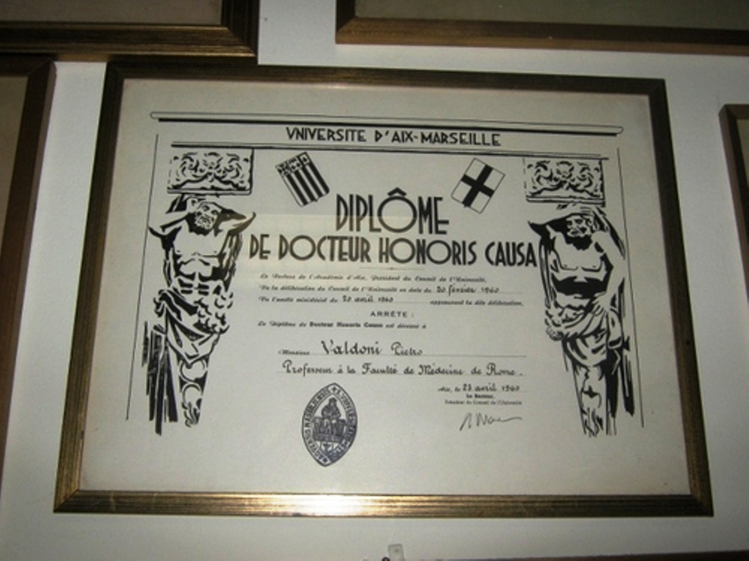 Pietro Valdoni's honour